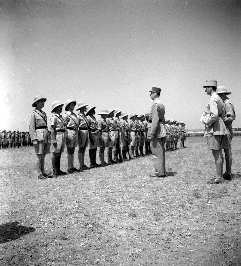 Charles de Gaulle at Qastina in Palestine, awarding the 'croix de la Libération' in 1941, May